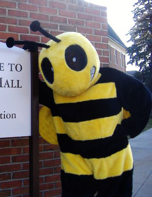 Stinger Baldwin Wallace College Mascot